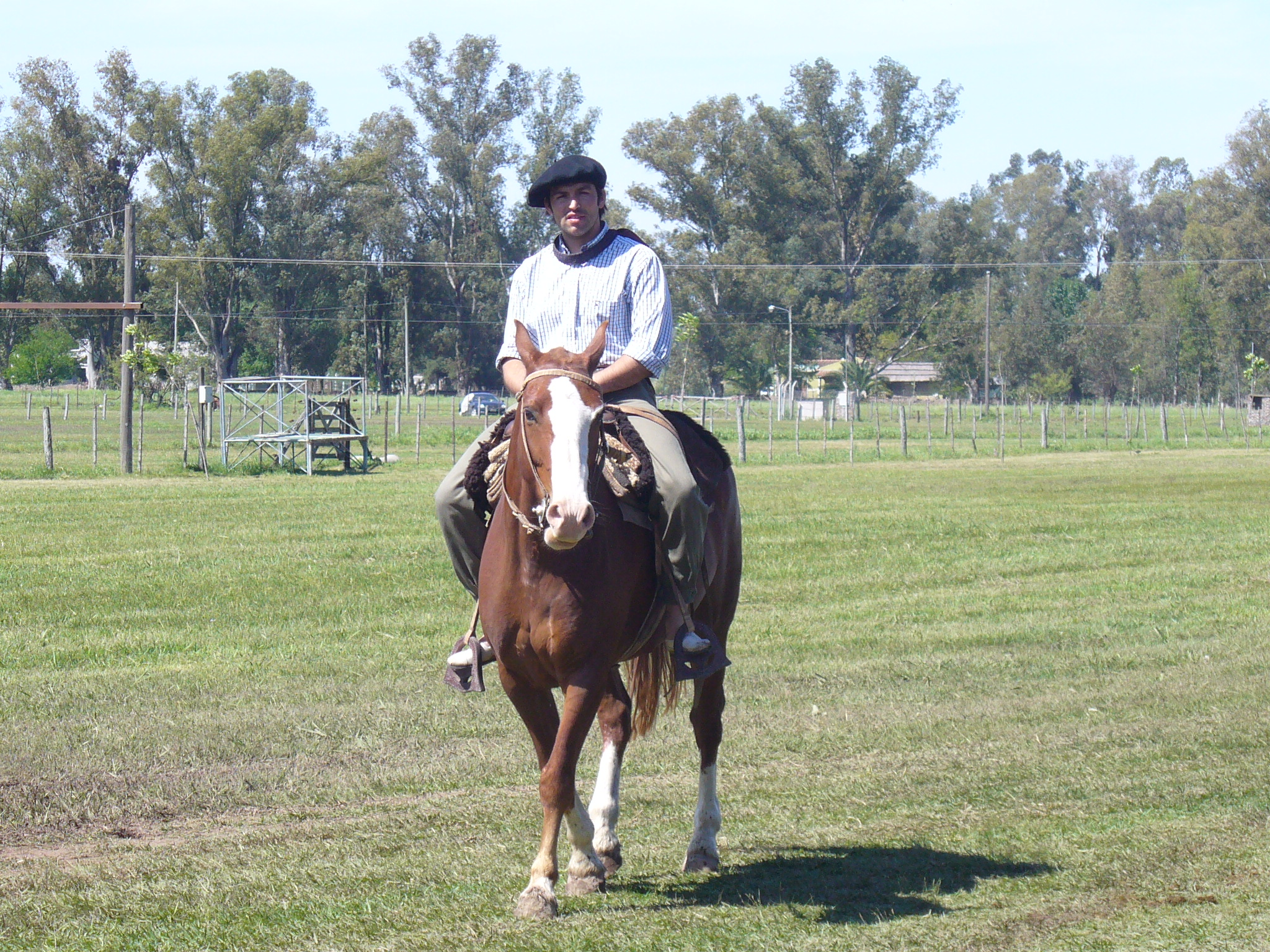 Alive and Well in Argentina